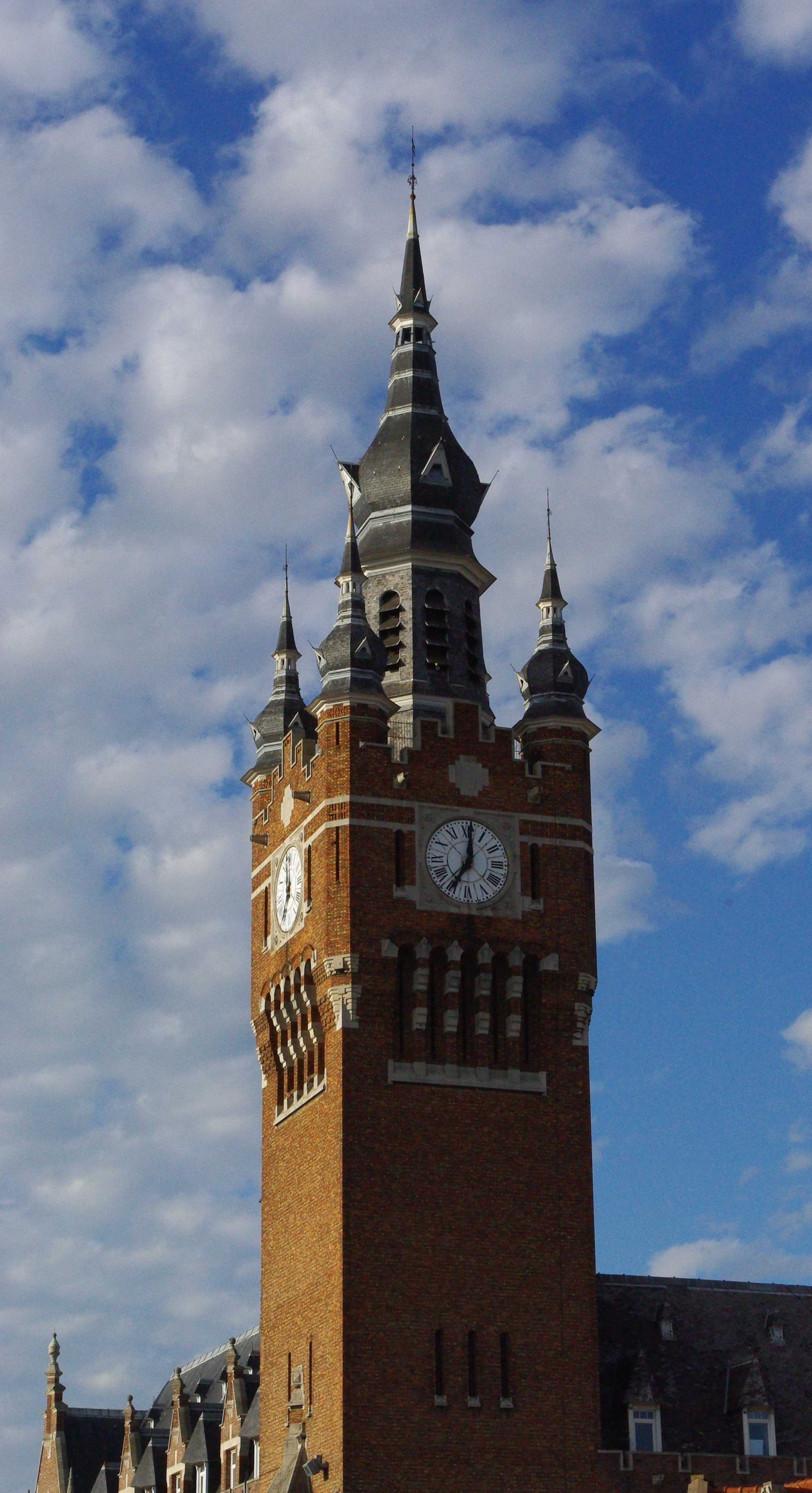 Armentières belfry (North, France)